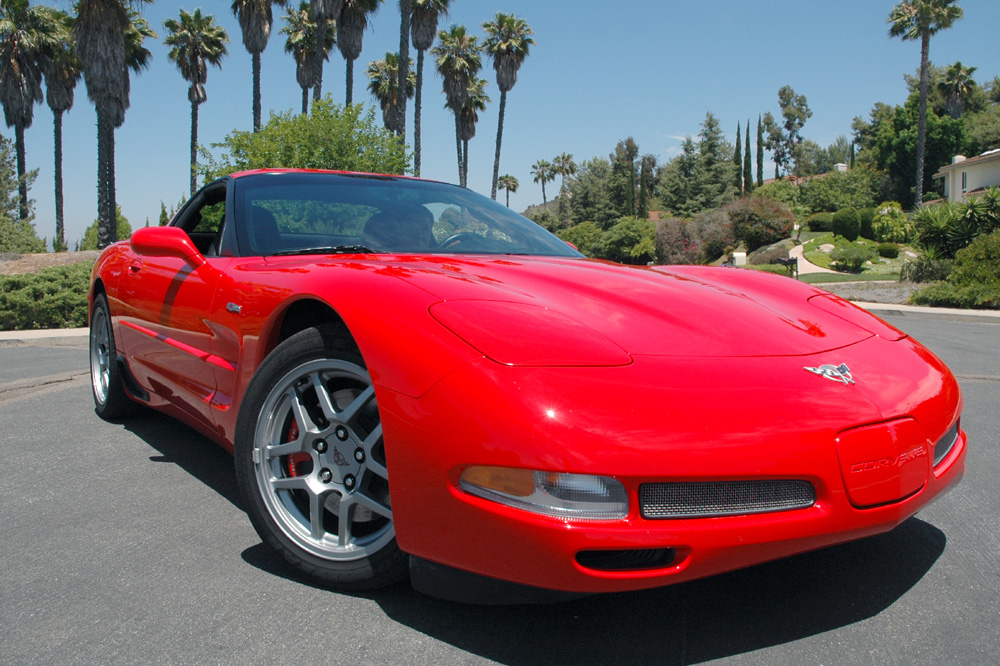 Corvette Z 06 of 2003 photographed in San Diego, California